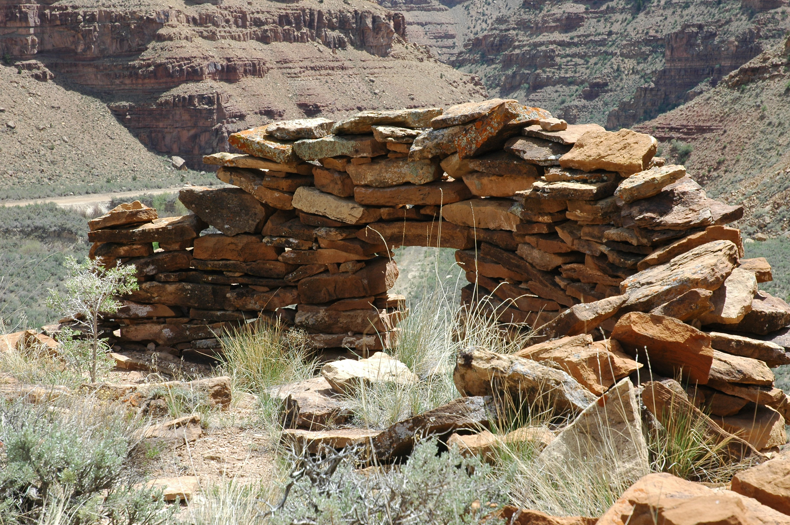 Redman Village, an archaeological site consisting of several rock shelters left by the Fremont culture in Nine Mile Canyon, Utah, United States.